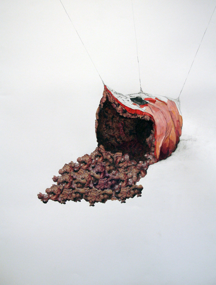 Mixed Media Drawing on Paper 5ft x 3ft 2007